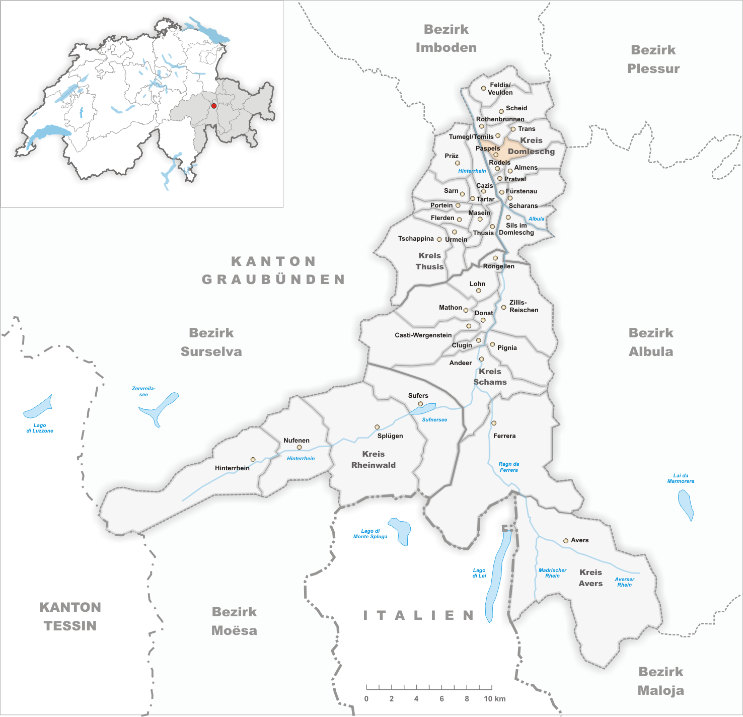 Municipality Paspels